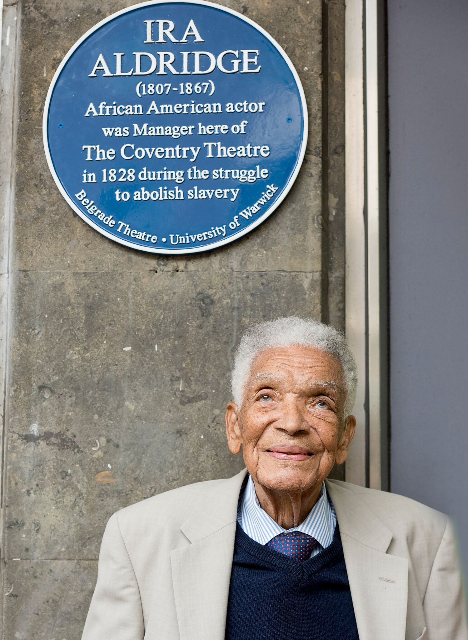 On Thursday August 3rd 2017 actor Earl Cameron helped unveil a blue plaque commemorating the location of Ira Aldridge's theatre in Coventry. Earl's voice coach was was Aldridge's daughter Amanda Ira Aldridge. The plaque unveiling was organised by the University of Warwick, Coventry City Council and the Belgrade theatre. Picture copyright University of Warwick and supplied by the University under wikicommons as long as picture is attributed to The University of Warwick.